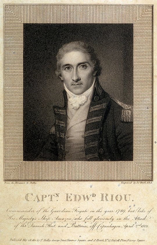 Captn Edwd Riou Commander of the Guardian Frigate in the year 1789 but late of His Majesty's ship Amazon who fell gloriously in the Attack of the Danish Fleet and Batteries off Copenhagen April 2nd 1801